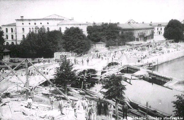 The bridge Storbron in Örebro, Sweden, under construction